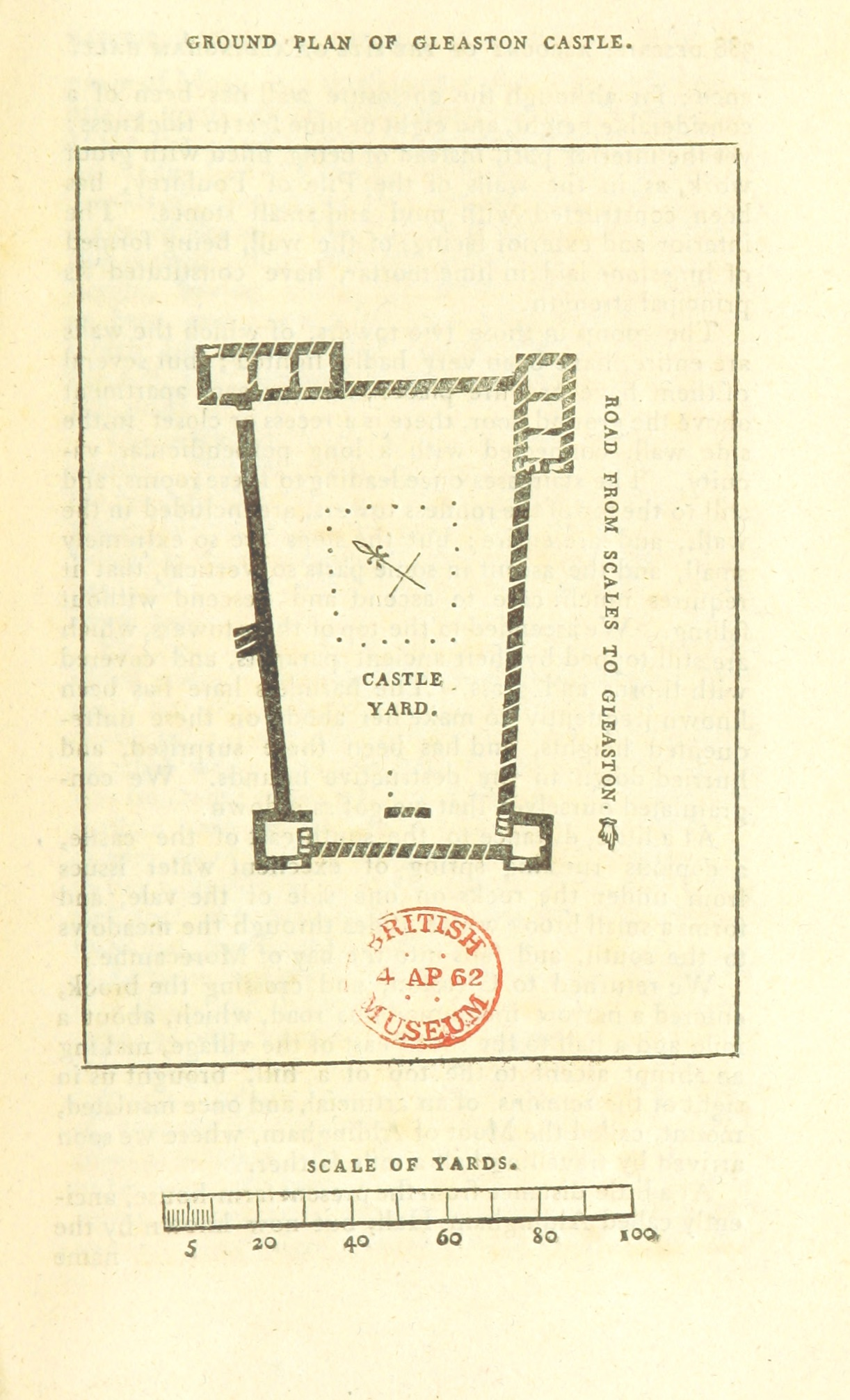 Plan of Gleaston Castle from The Antiquities of Furness (1774)